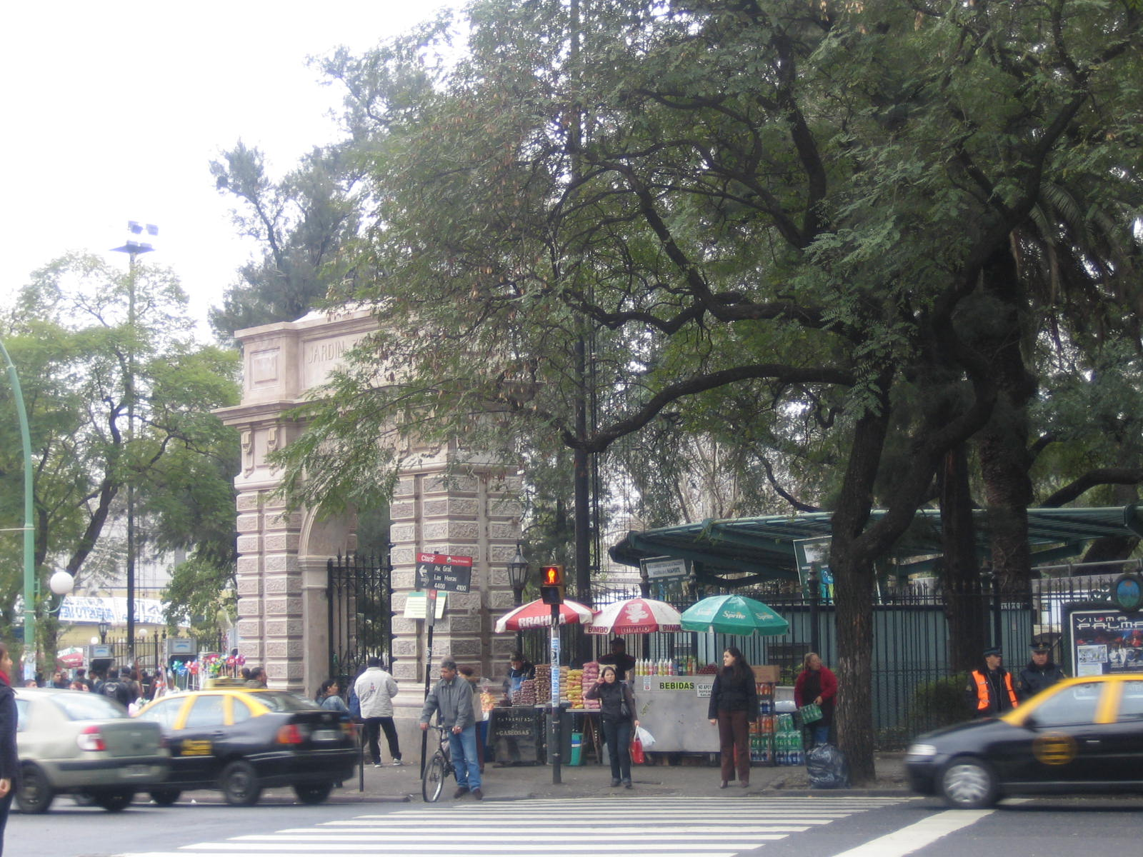 Entrance door to the Buenos Aires Zoo, on Las Heras Avenue in Palermo district.